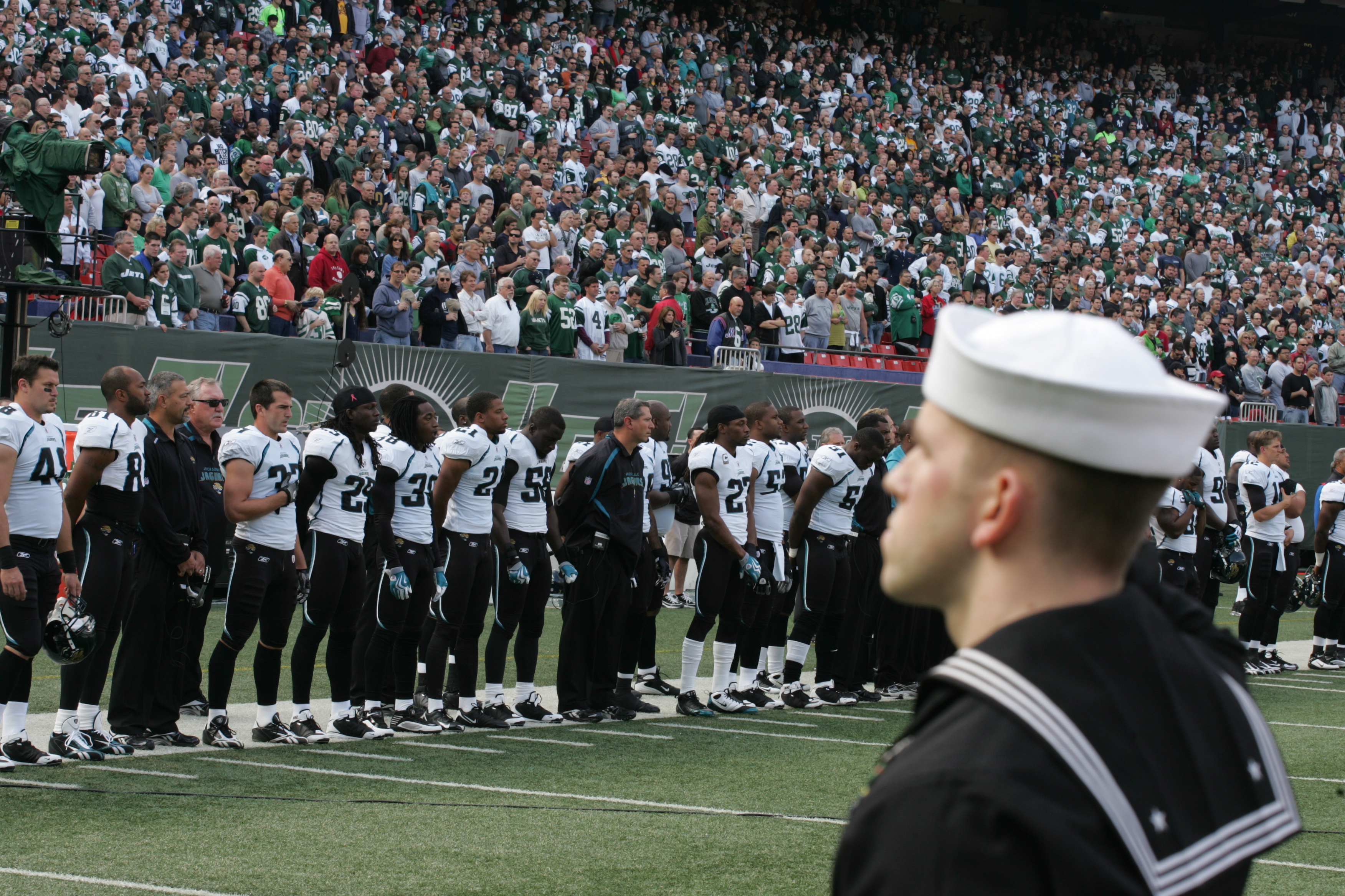 EAST RUTHERFORD, N.J. -- Marine Corps, Air Force, Navy, Coast Guard and Army service members stand at attention and salute during the singing of the National Anthem on the field at Giants Stadium for a pre-game ceremony honoring veterans, Nov. 15. A Coast Guard detachment sang the National Anthem and were joined by a joint-service color guard before the New York Jets game against the Jacksonville Jaguars. Chief Master Sgt. James A. Roy, Chief Master Sergeant of the Air Force, presented the coin for the pre-game coin toss.(Official Marine Corps photo by Sgt. Randall A. Clinton)